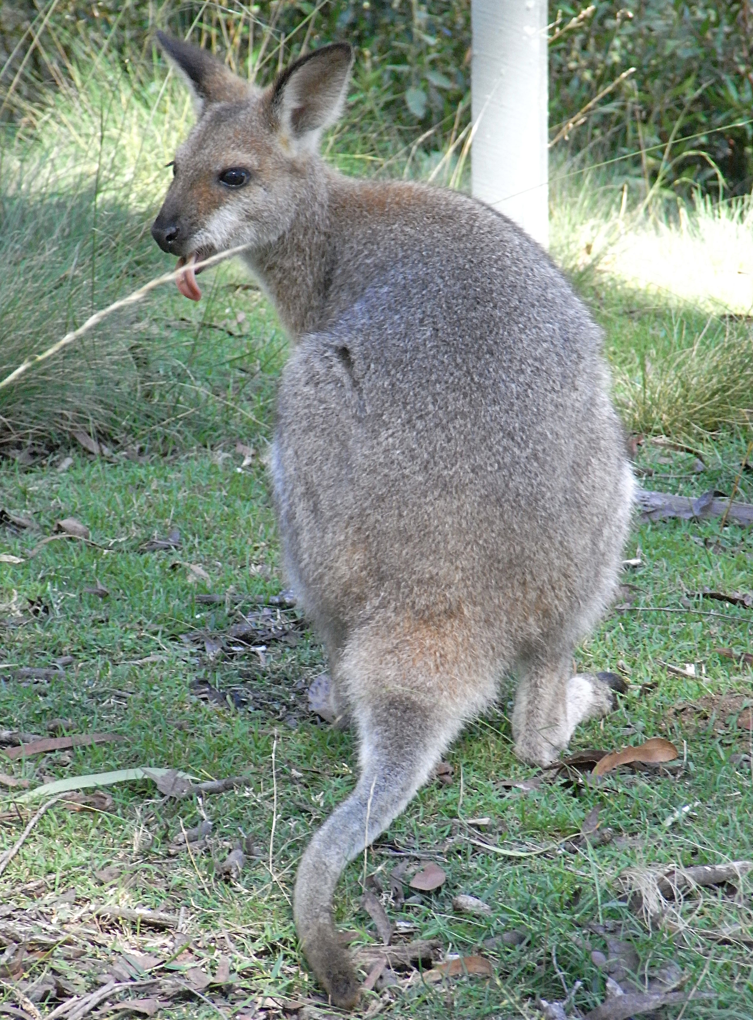 Wild Red-necked Wallaby (Macropus rufogriseus) near Mulligans Hut, Gibraltar Range National Park, Australia.